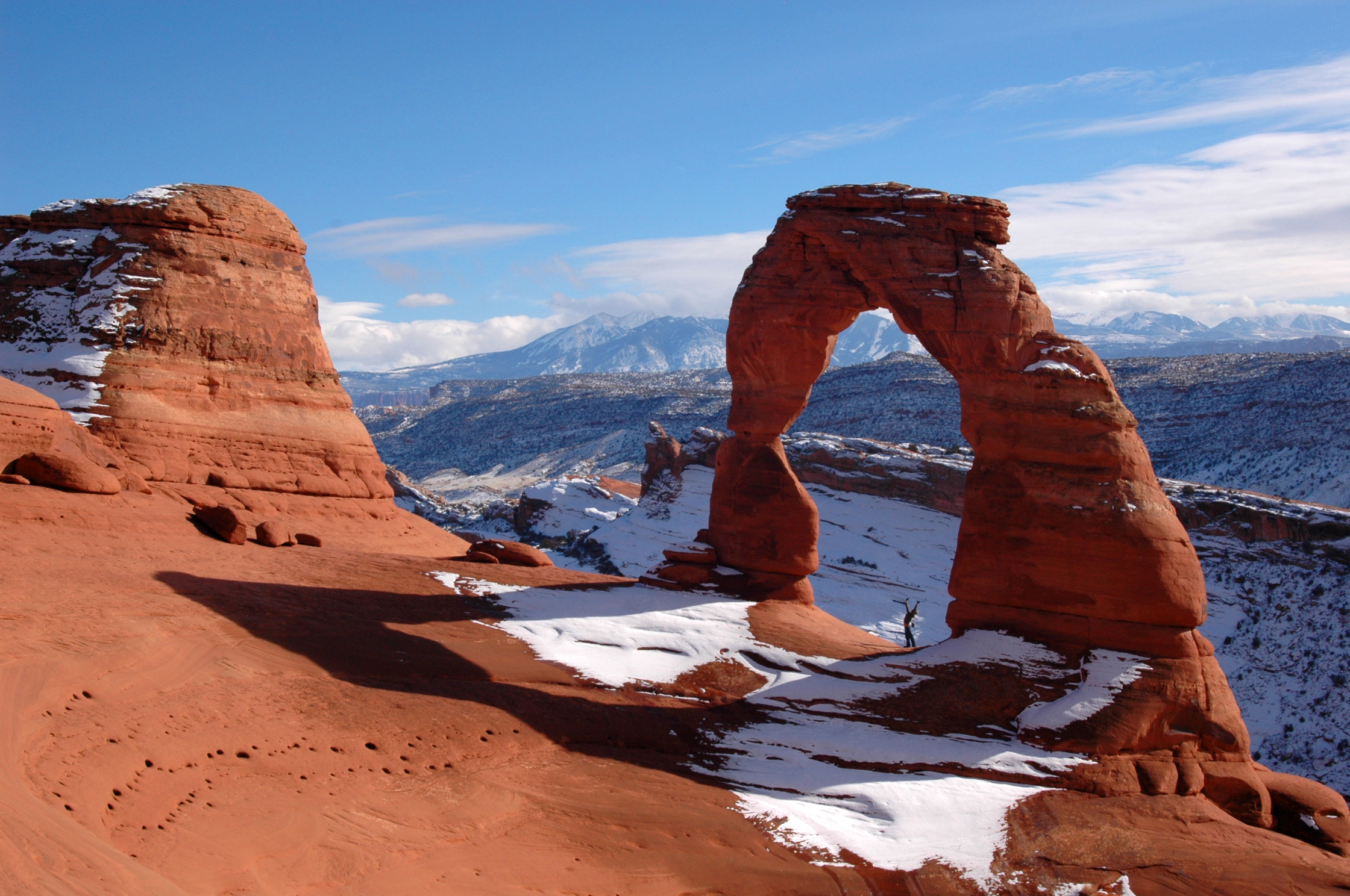 Arches National Park, Delicate Arch